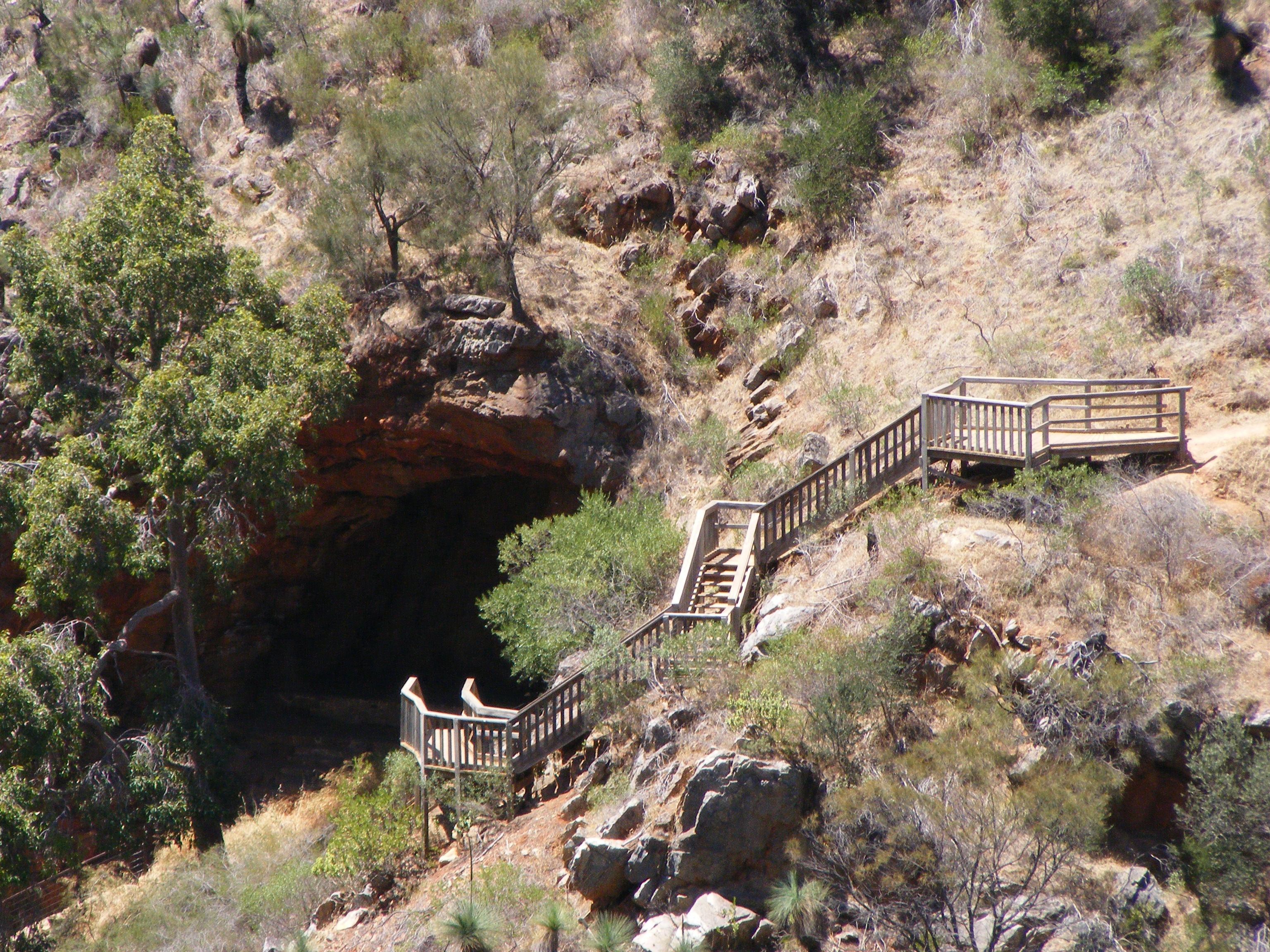 "Giants Cave" at Morialta recreation park, Adelaide, South Australia.